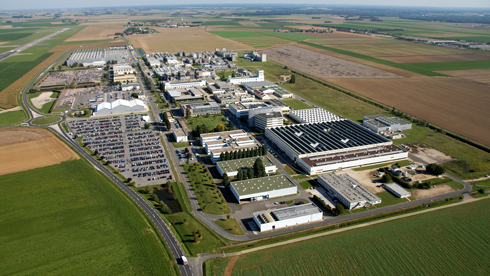 Vilaroche